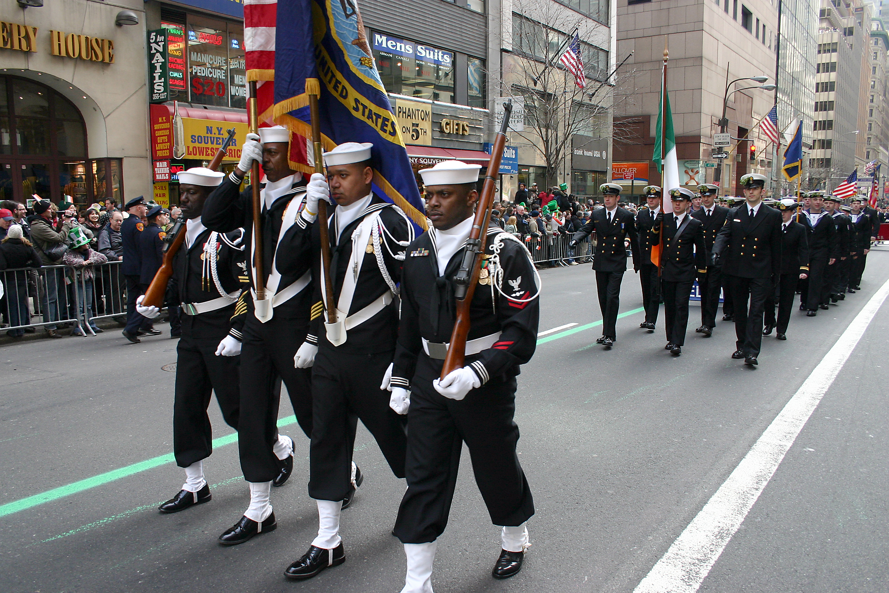 New York City, N.Y. (Mar. 17, 2005) - Members of Naval Reserve Center Bronx's color guard march up Fifth Avenue in New York City (NYC), at the 244th Annual NYC St. Patrick's Day parade, followed by crew members of the Irish Navy offshore patrol vessel L.E. Roisin (P 51). The Irish Sailors were in Manhattan as part of a goodwill tour in honor of St. Patrick's Day. Over one million onlookers gathered to watch 150,000 parade participates in what is considered the oldest and largest St. Patrick's Day parade in the world. U.S. Navy photo by Chief Journalist John Harrington (RELEASED)